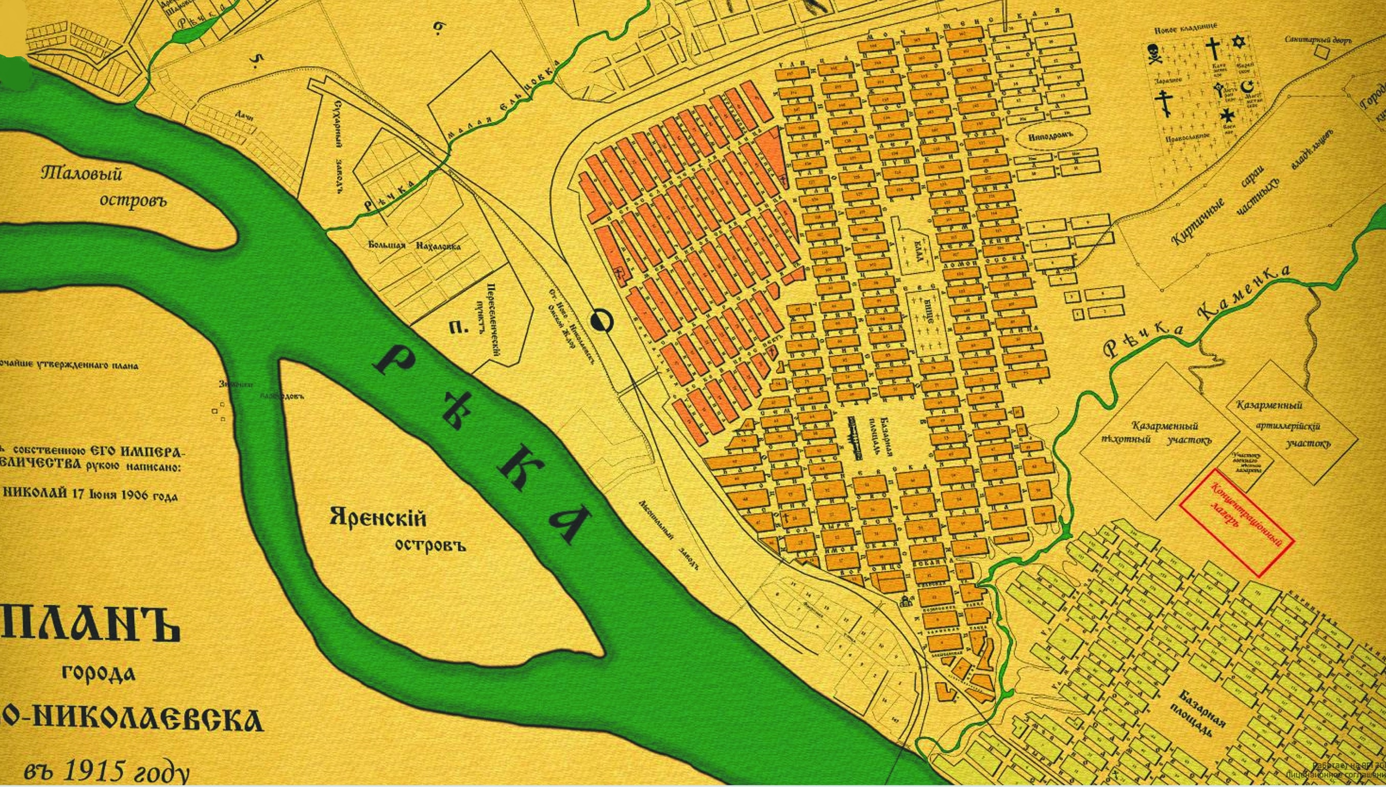 Novonikolayevsk (current Novosibirsk) in 1915.